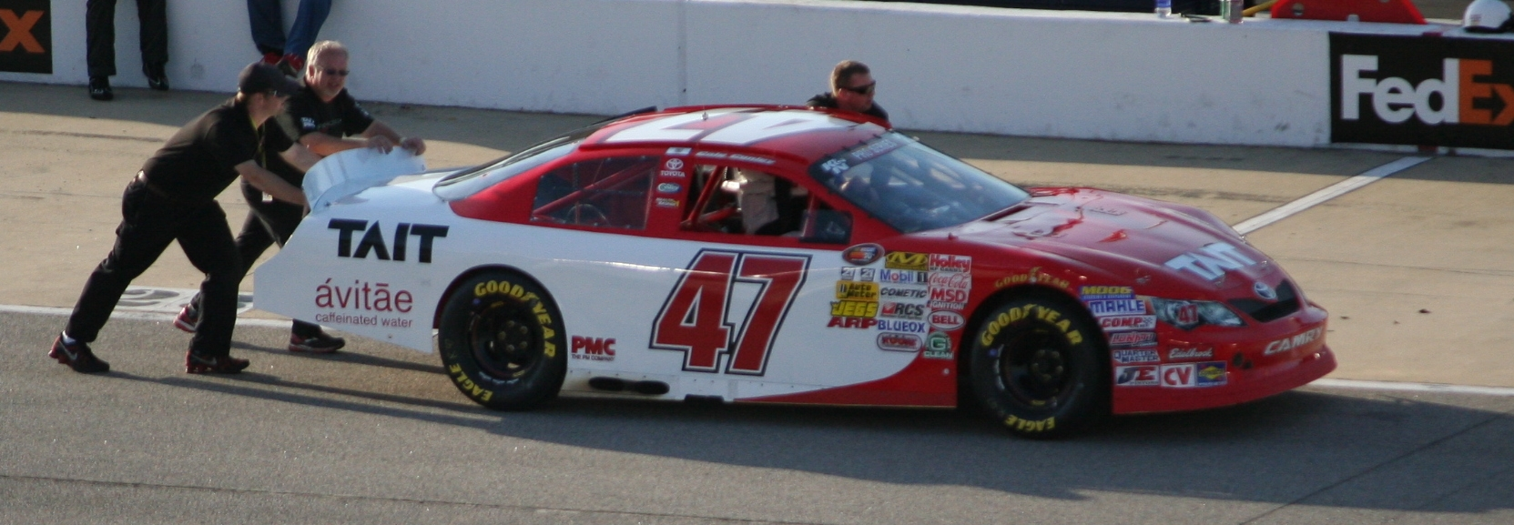 The No. 47 Toyota of Cale Conley is pushed on pit road at Richmond International Raceway before the NASCAR K&N Pro Series East Blue Ox 100, April 25 2013.